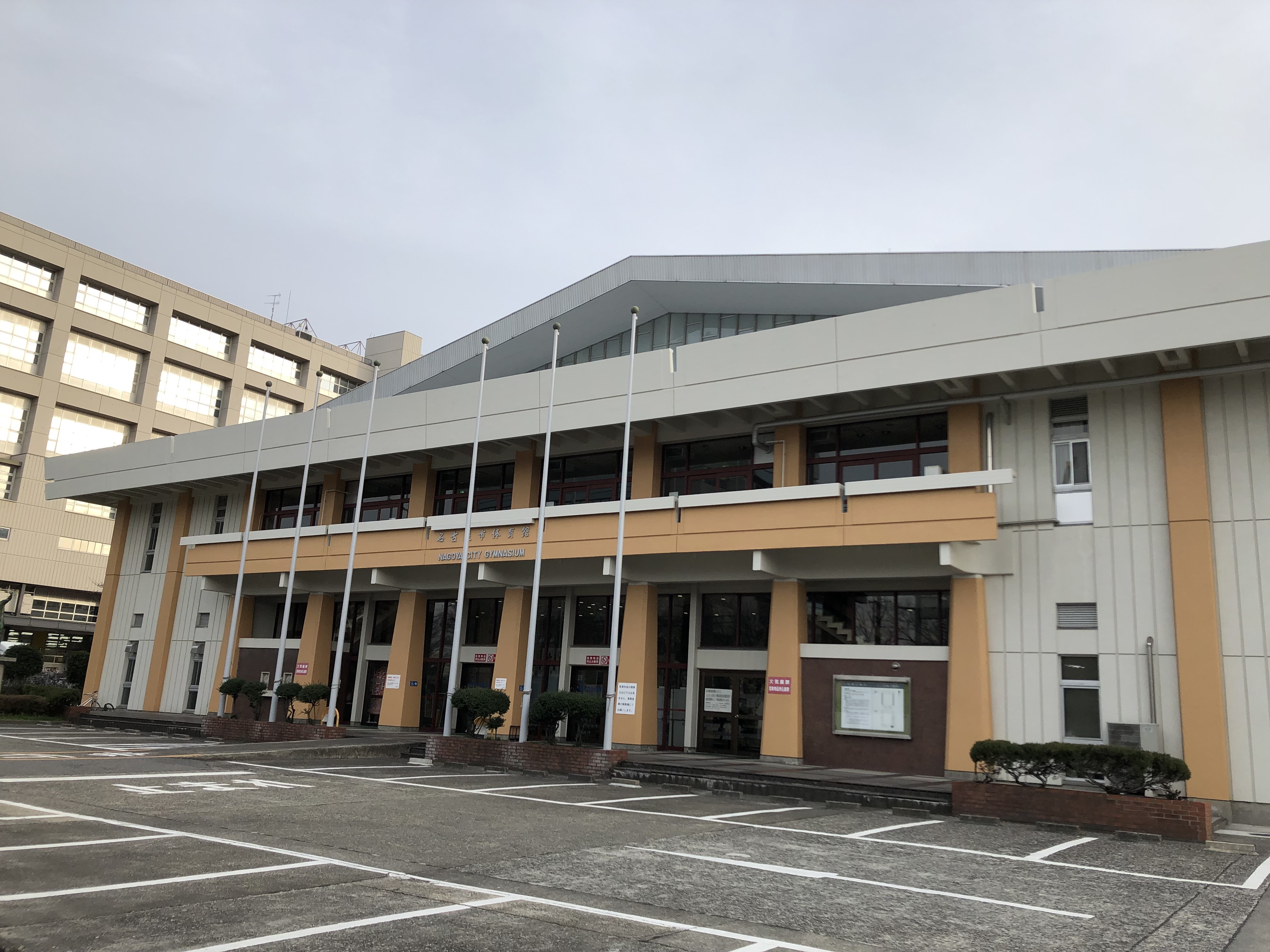 NagoyaCity Gym